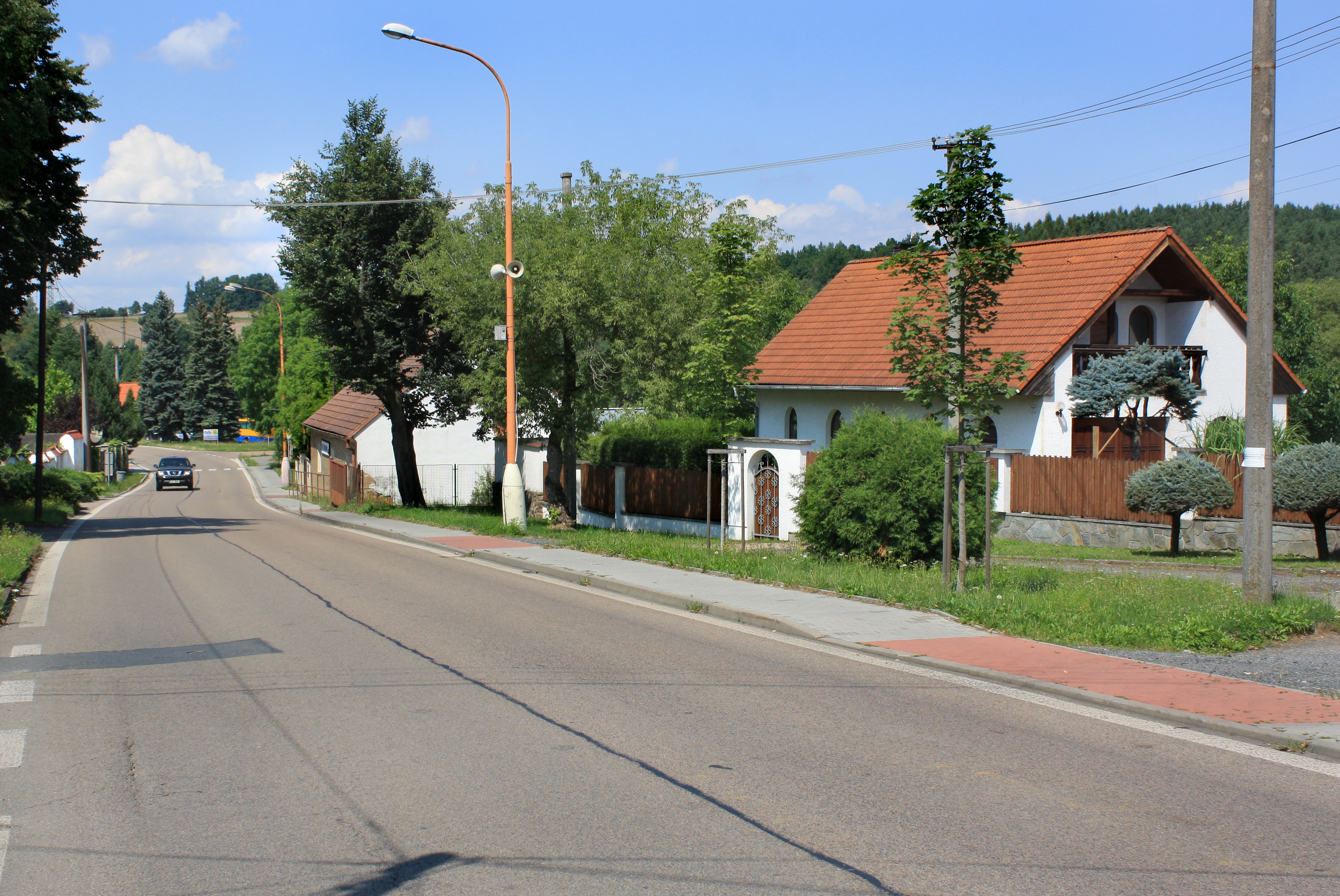 Rokycanská street in Nová Huť, part of Hrádek, Czech Republic